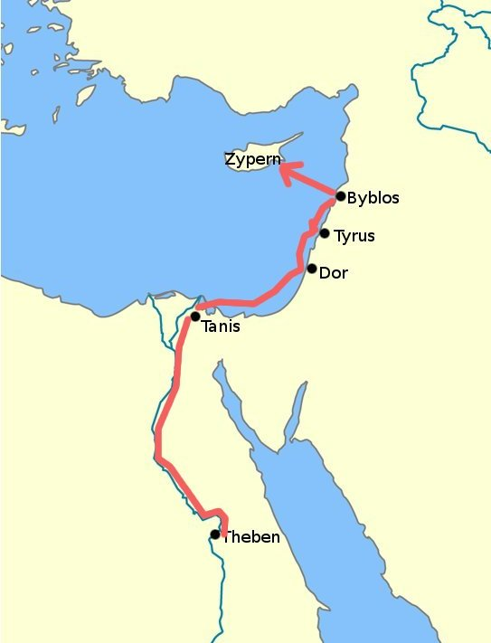 This is a blank version of the base map I used when drawing Image:Fertile Crescent map.png. The map shows the route of Wenamuns journey in the ancient egyptian "story of wenamun", the source for the route is: Bill Manley, Die siebzig grossen Geheimnisse des Alten Ägyptens, 2003, p. 182